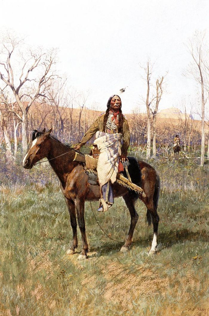 Scout crow.